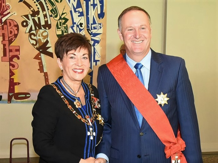 The Right Honourable Sir John Key,GNZM,of Auckland, for services to the State